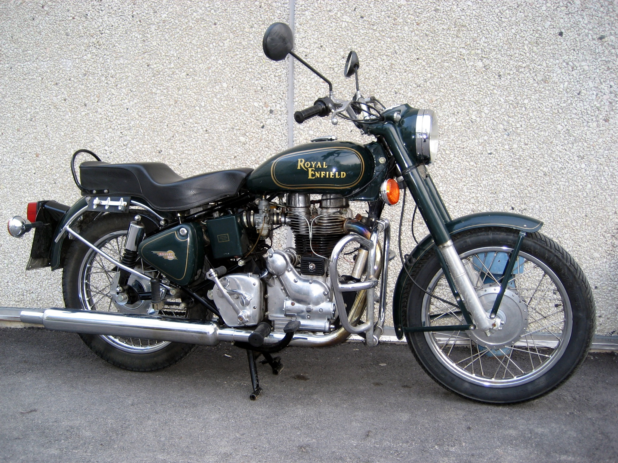 Royal Enfield 500 Bullet Standard, made in Chennai, India.